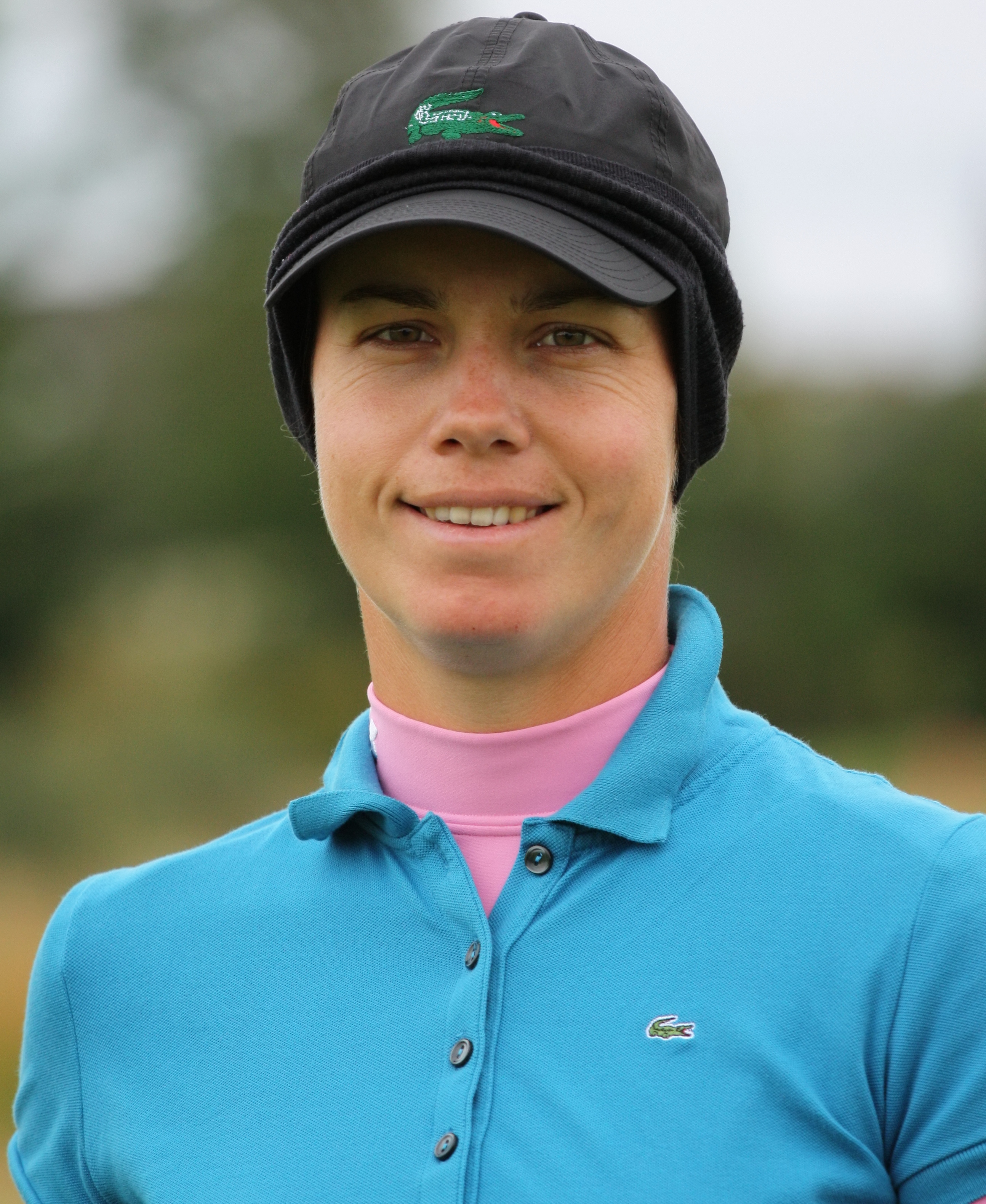 LYTHAM ST ANNES, UNITED KINGDOM - JULY 29: Karine Icher of France on the 11th green during third practice round before 2009 Ricoh Women's British Open held at Royal Lytham & St Annes on July 29, 2009 in Lytham St Annes, England. (Photo by Wojciech Migda)